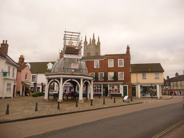 Bungay: the Buttercross Standing in the centre of a small, attractive marketplace, the Buttercross was built in the late 1600s following the great fire which destroyed most of the town. The tower of St. Mary's church is in the background.